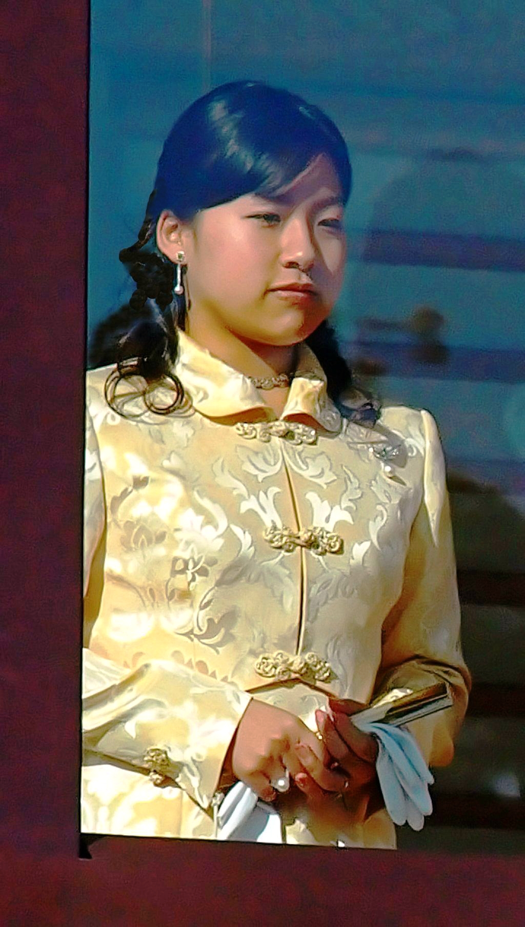 Princess Ayako appeared the "Visit of the General Public to the Palace for the New Year Greeting" at the Tokyo Imperial Palace in Chiyoda Ward, Tōkyō Metropolis on January 2, 2011.